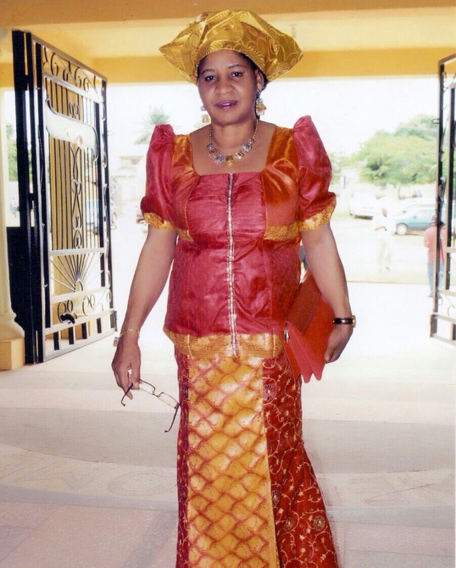 Cecilia Ojabo in Makurdi, 2015